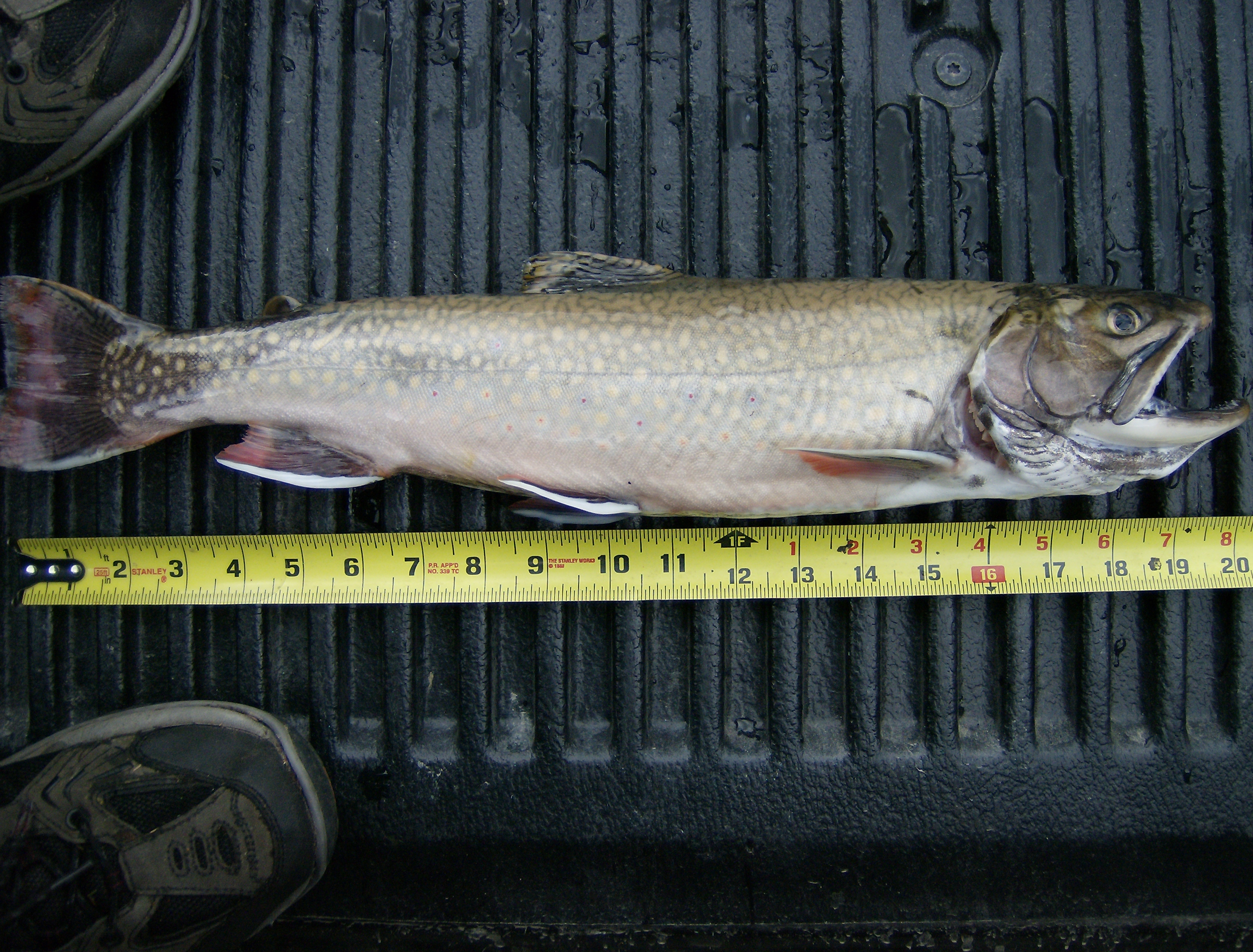 Image of a brook trout (speckled trout). Fished in the Clearwater Brook July 12, 2010